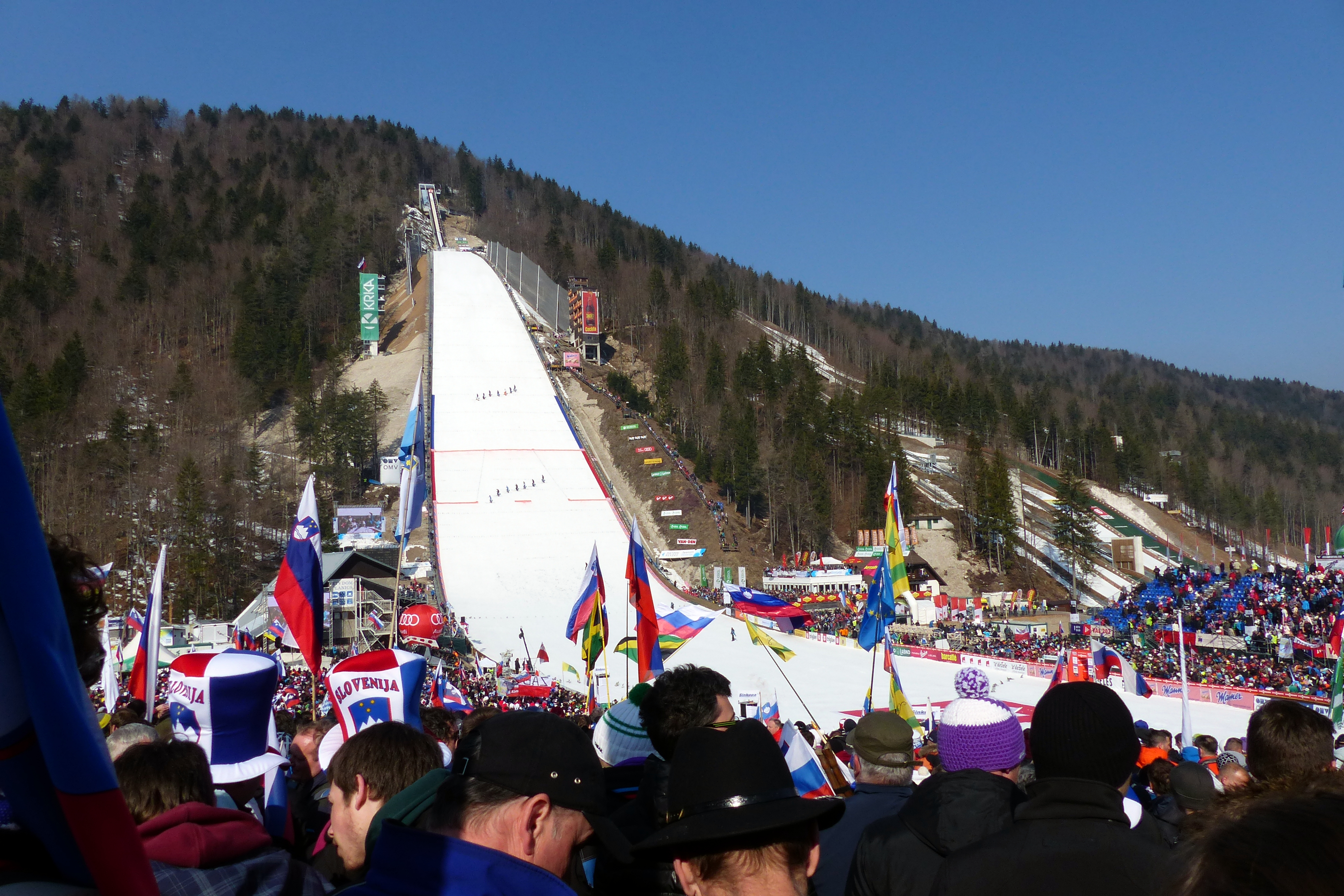 Letalnica bratov Gorišek im März 2015